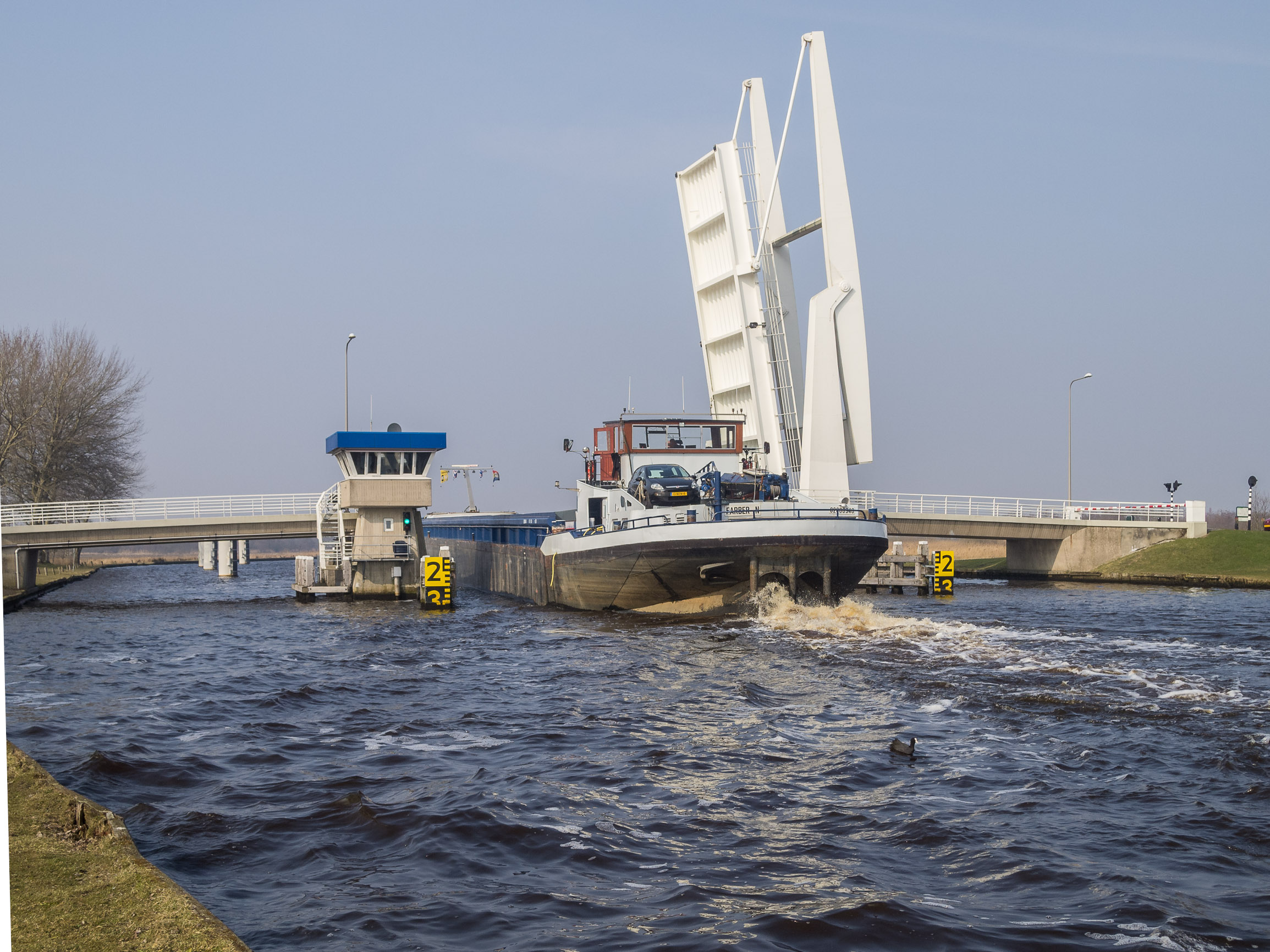 Brug naar de Hegewarren